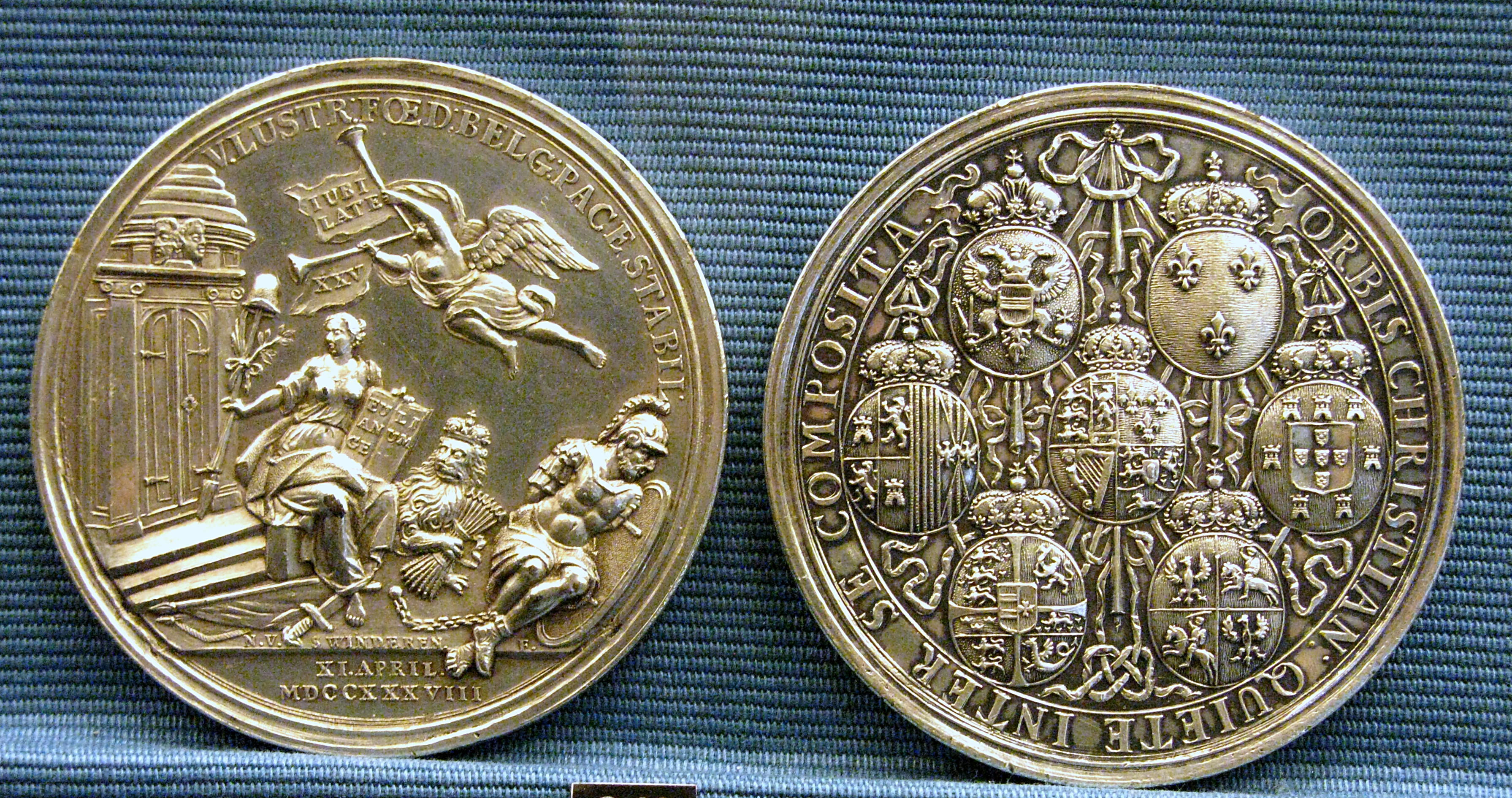 Medal commemorating 25th anniversary of the Treaty of Utrecht of 1713